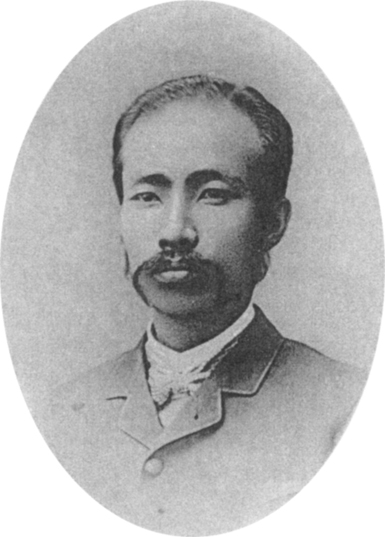 Late Mr. Teiji Nobutani.